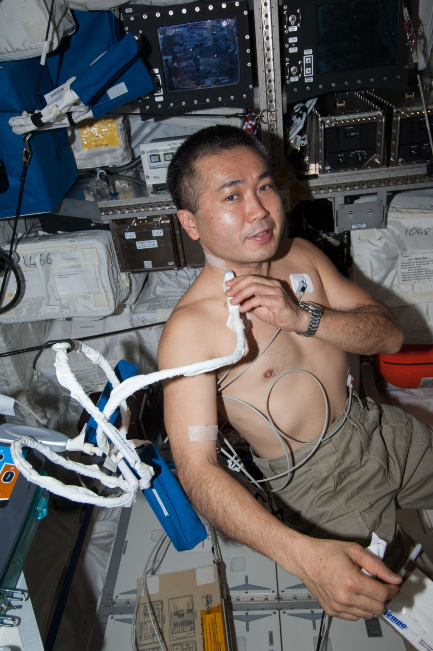 JAXA astronaut Koichi Wakata, Expedition 38 Flight Engineer, demonstrates the ultrasound used to collect data for the Cardio Ox investigation, in the Columbus Module.